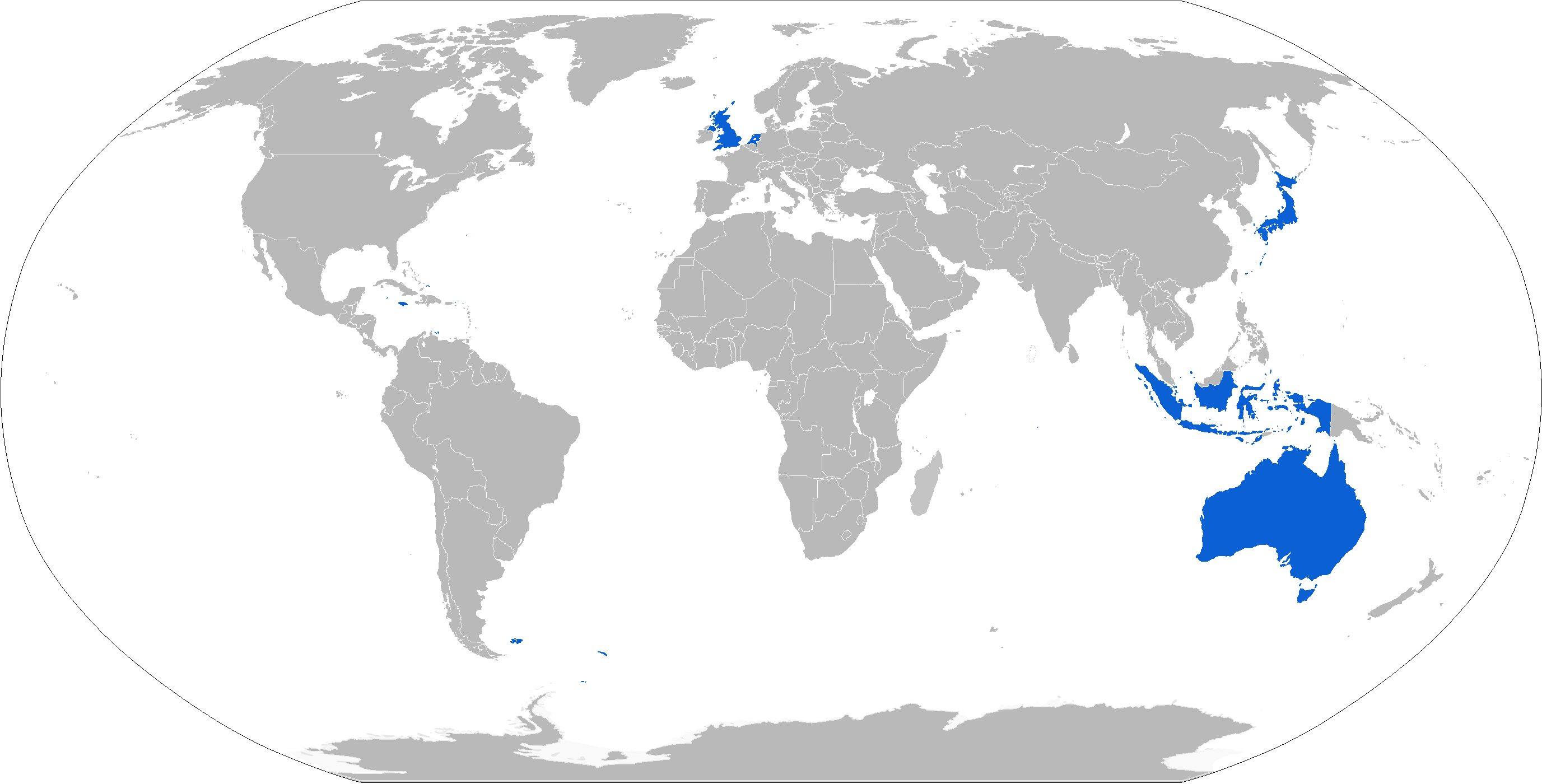 Map of Bushmaster operators in blue